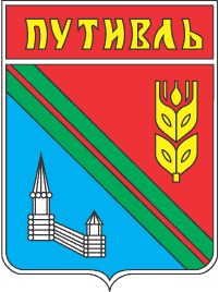 Coat of arms Putyvl city in Sumy Oblast Ukraine